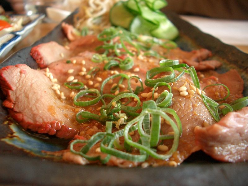 Wafu Steak at Chocolate Buddha Nice shiso dressing, but the beef was a bit over marinated and looked a bit like Chinese char-siu BQQ pork.